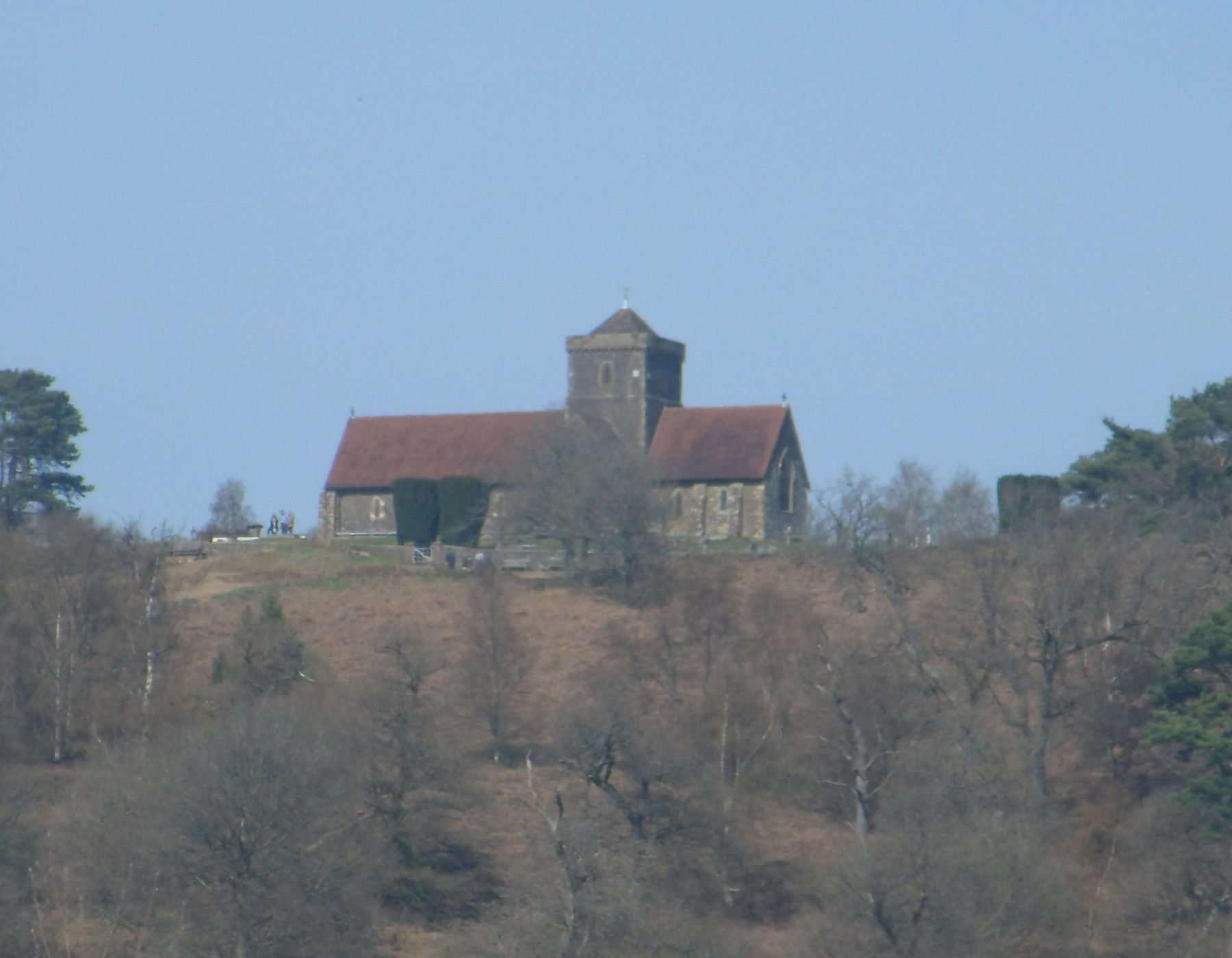 St Martha's Church, St Martha-on-the-Hill, Borough of Guildford, Surrey, England. A long-distance view, seen from the southeast at Albury.